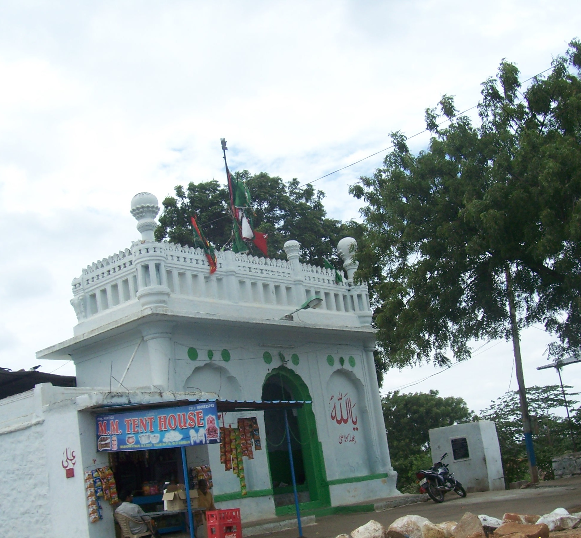 majid